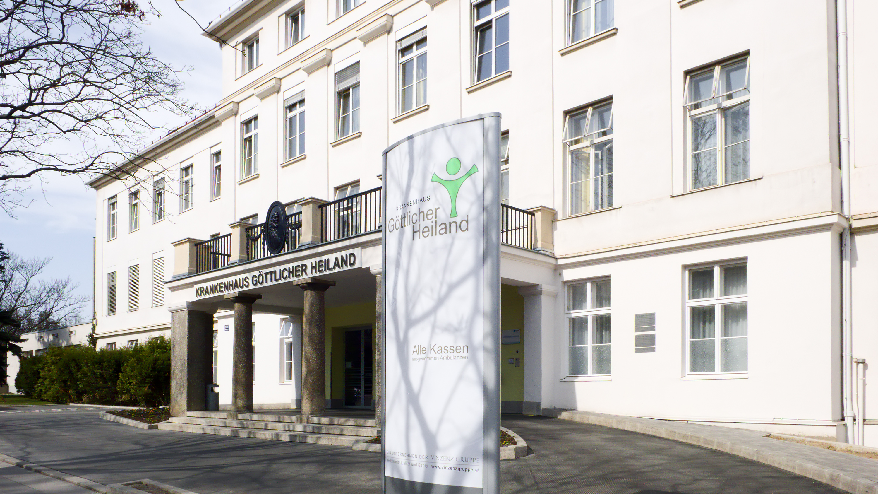 Hospital Krankenhaus Göttlicher Heiland in Vienna Hernals